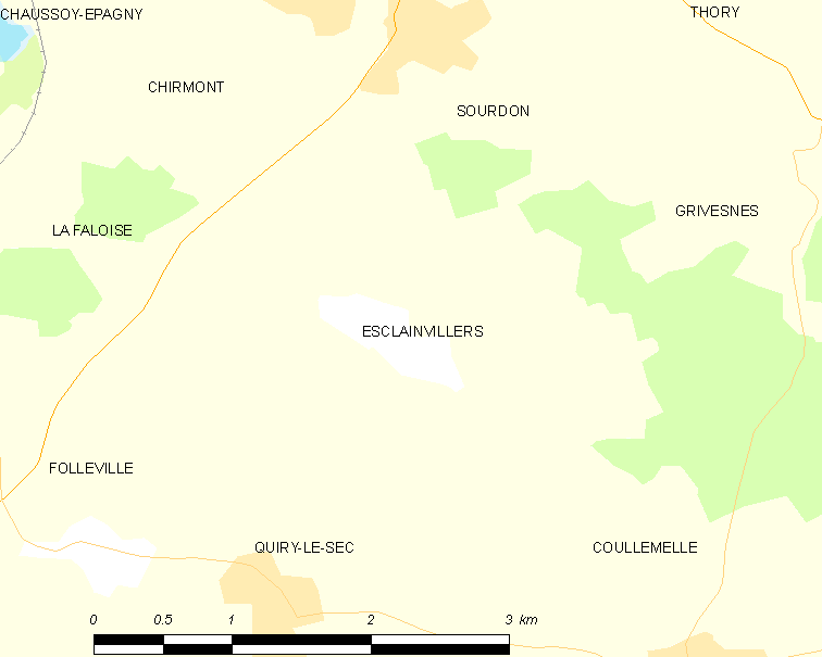 Map of French municipality Esclainvillers